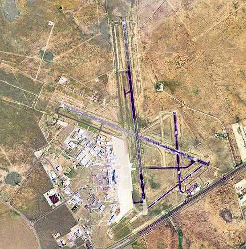 USGS digital orthophoto of Midland International Airport in Texas